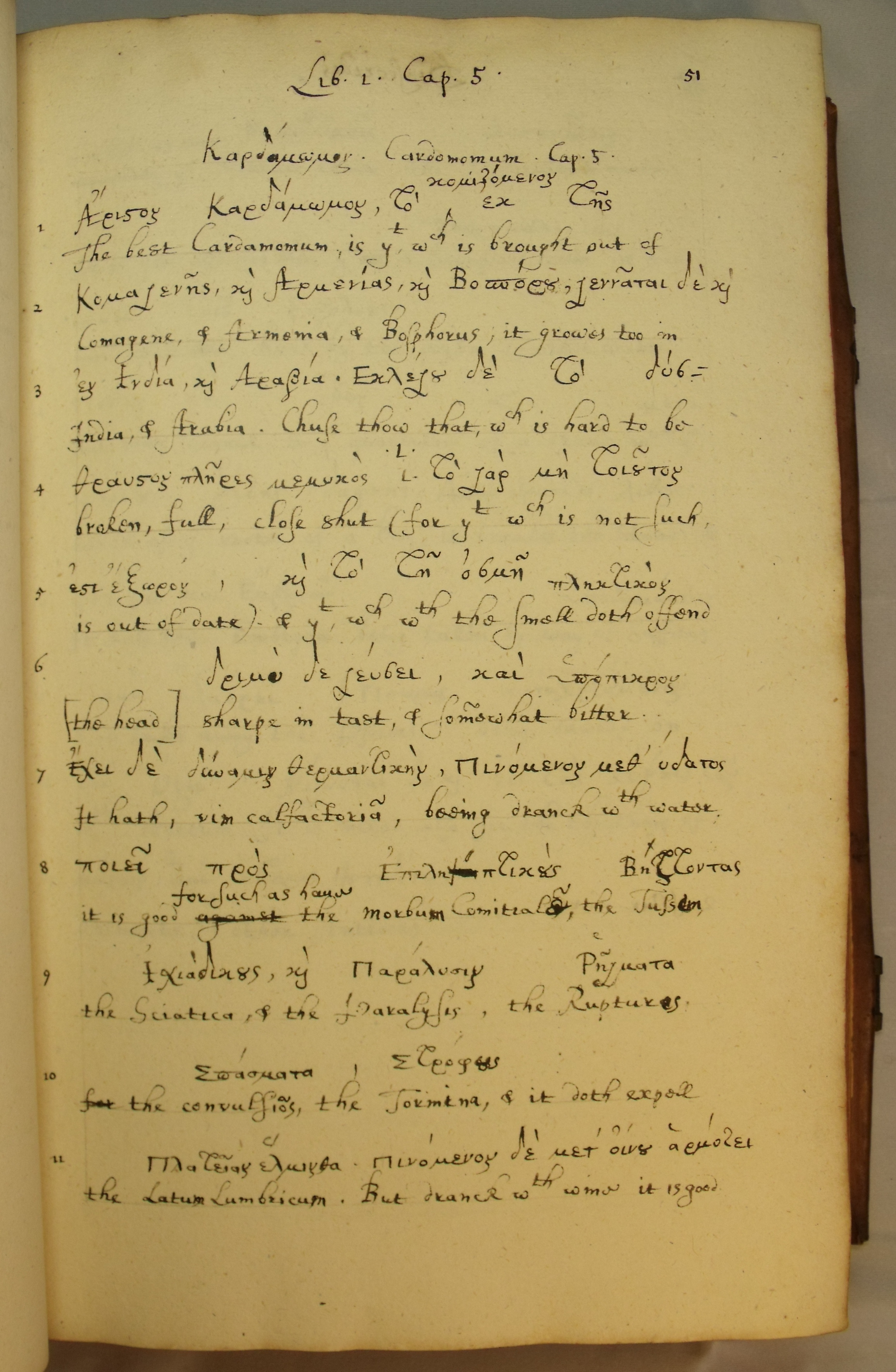 Page 91, from John Goodyer's translation of Discorides De Materia Medica